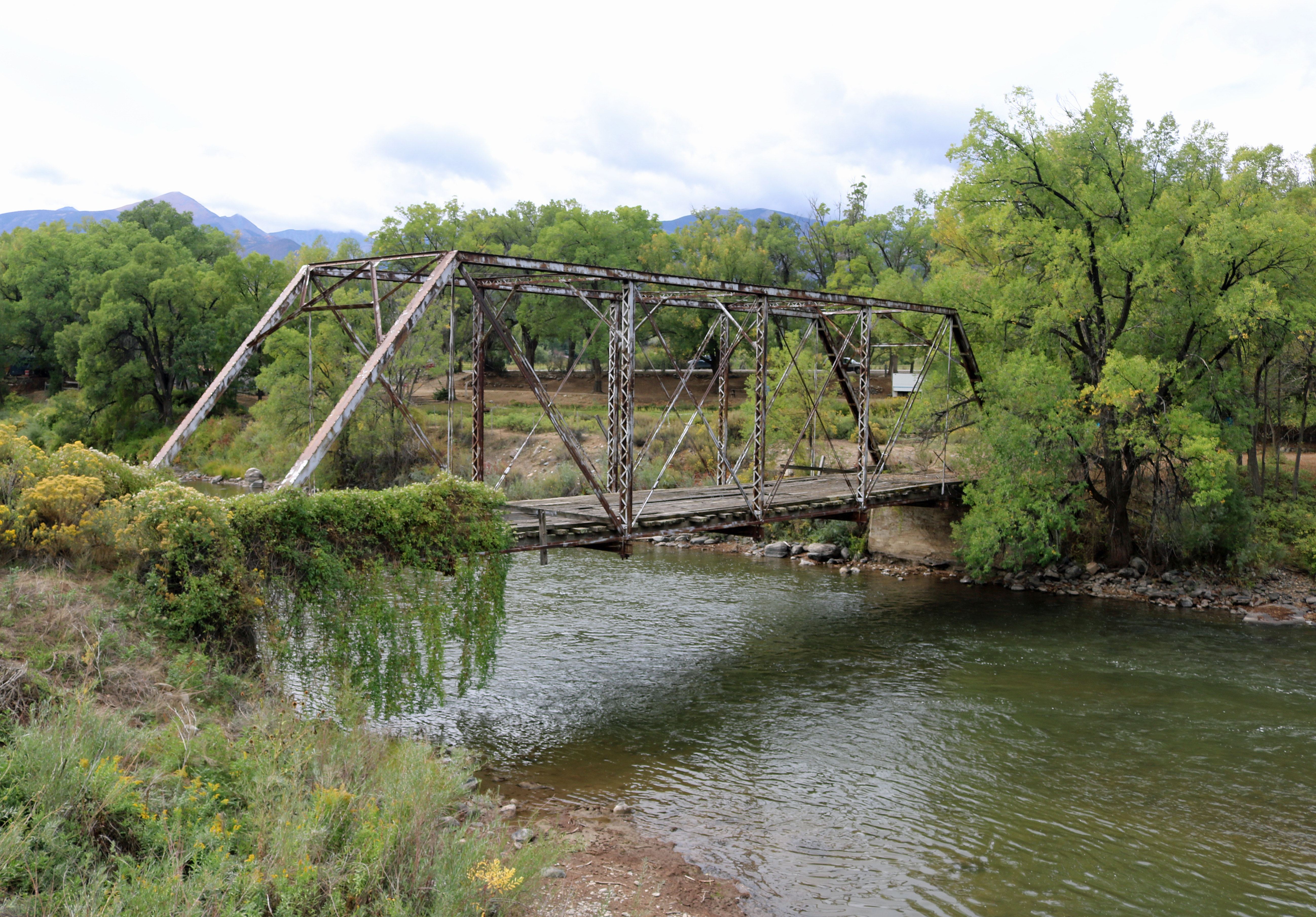 Coaldale Bridge No. 1, an abandoned through truss bridge that goes over the Arkansas River at Coaldale, Colorado.